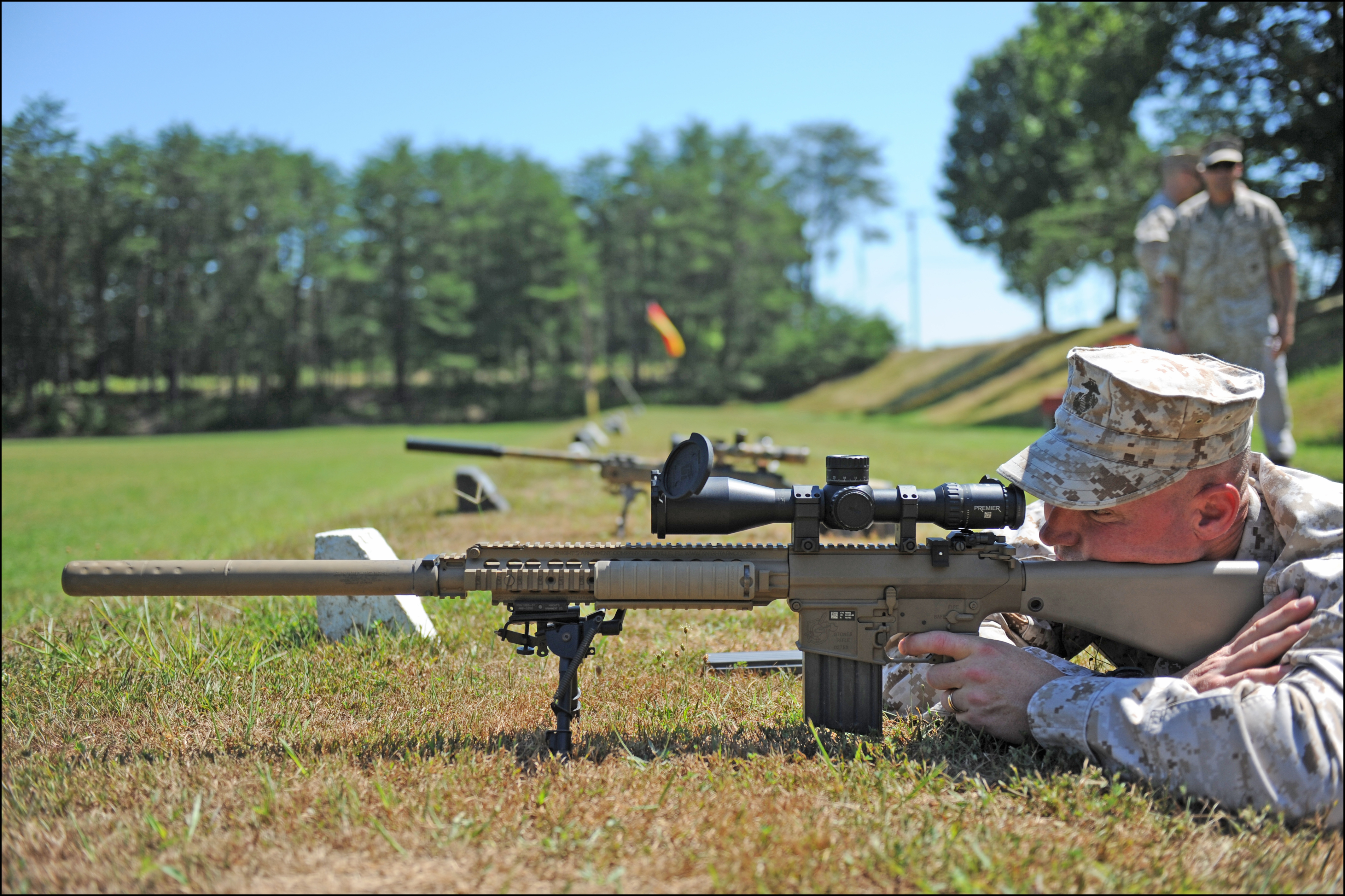 U.S. Marine Corps Sgt. Maj. Micheal P. Barrett, 17th Sergeant Major of the Marine Corps shoots with various weapons in Quantico, Va. July 26th, 2011. In the photo: M110 SASS.